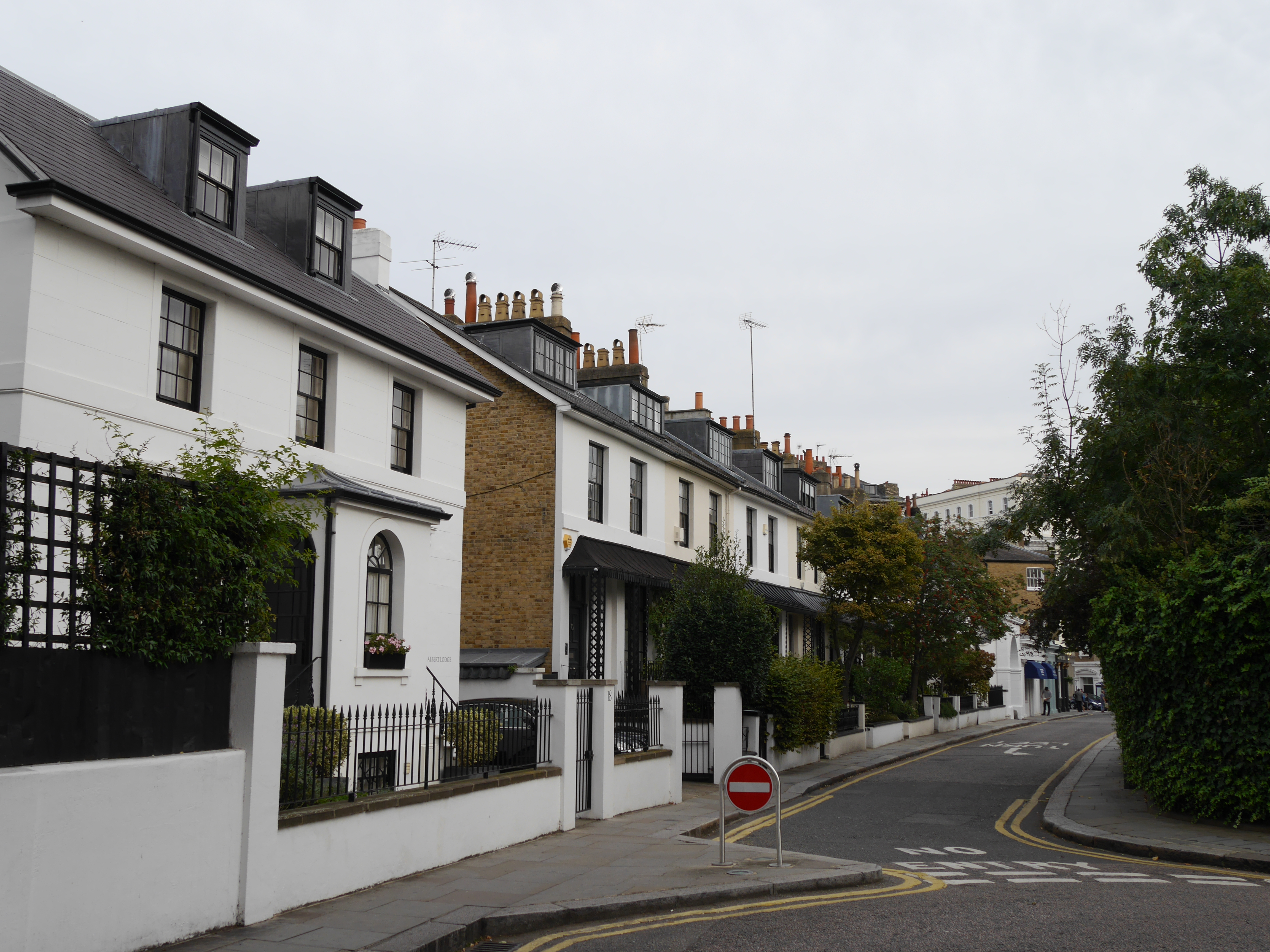 18 Victoria Grove, September 2016